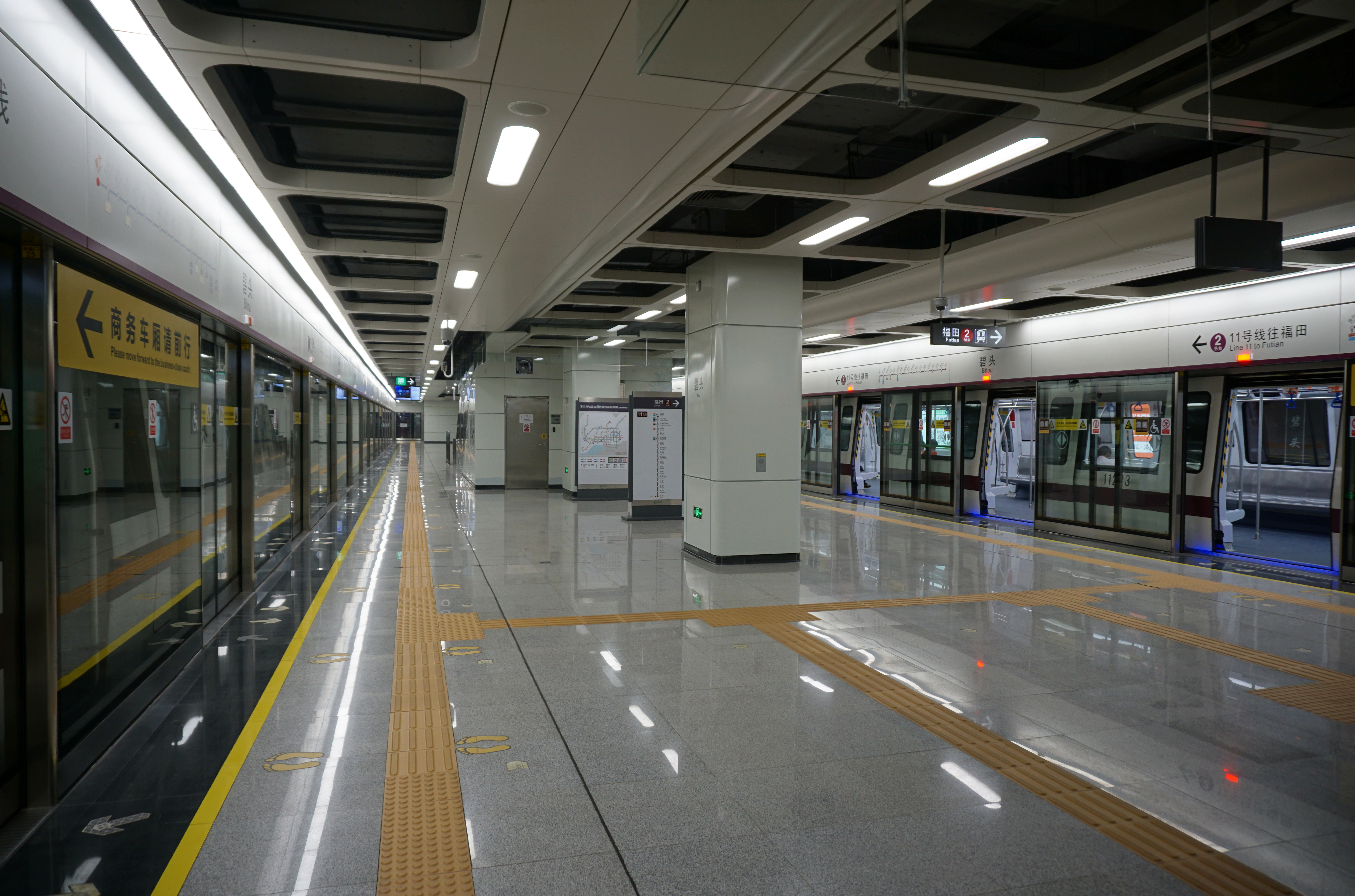 Bitou Station in Songgang, Shenzhen.